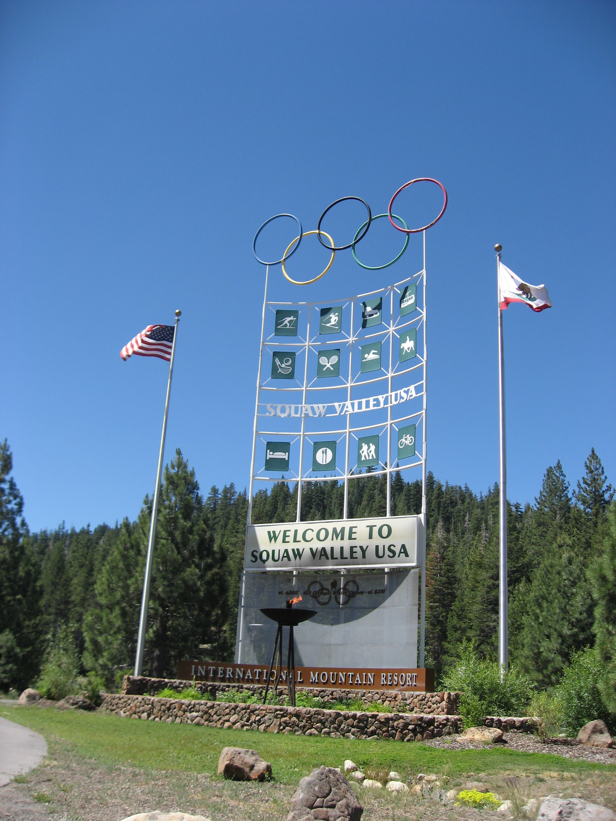 Olympic sign at Squaw Valley, home of the 1960 Winter Olympics. This sign shows pictograms, while its companion sign shows national emblems or coats of arms of some of the countries that participated.